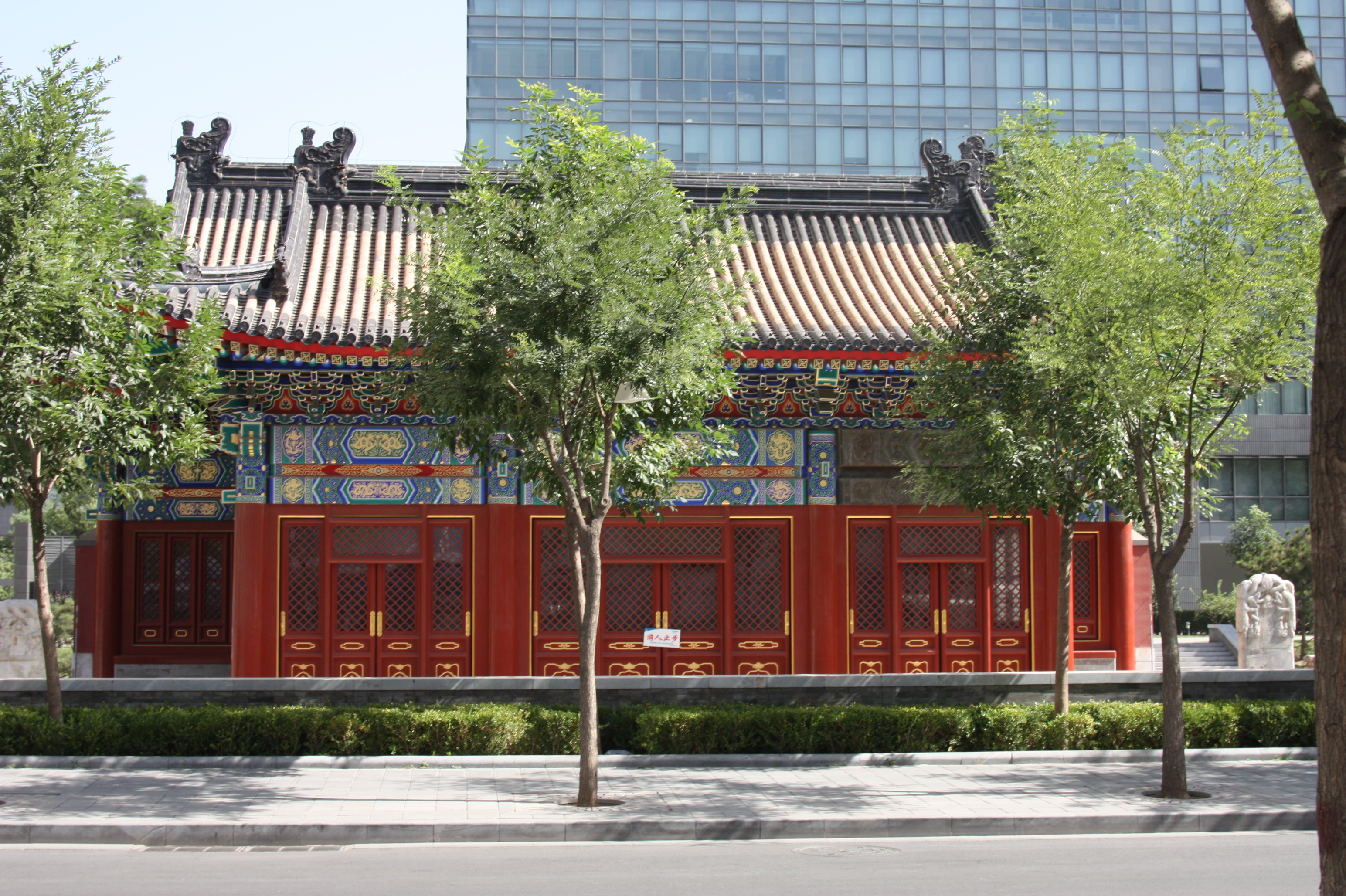 The Temple of the Town Deity in Beijing